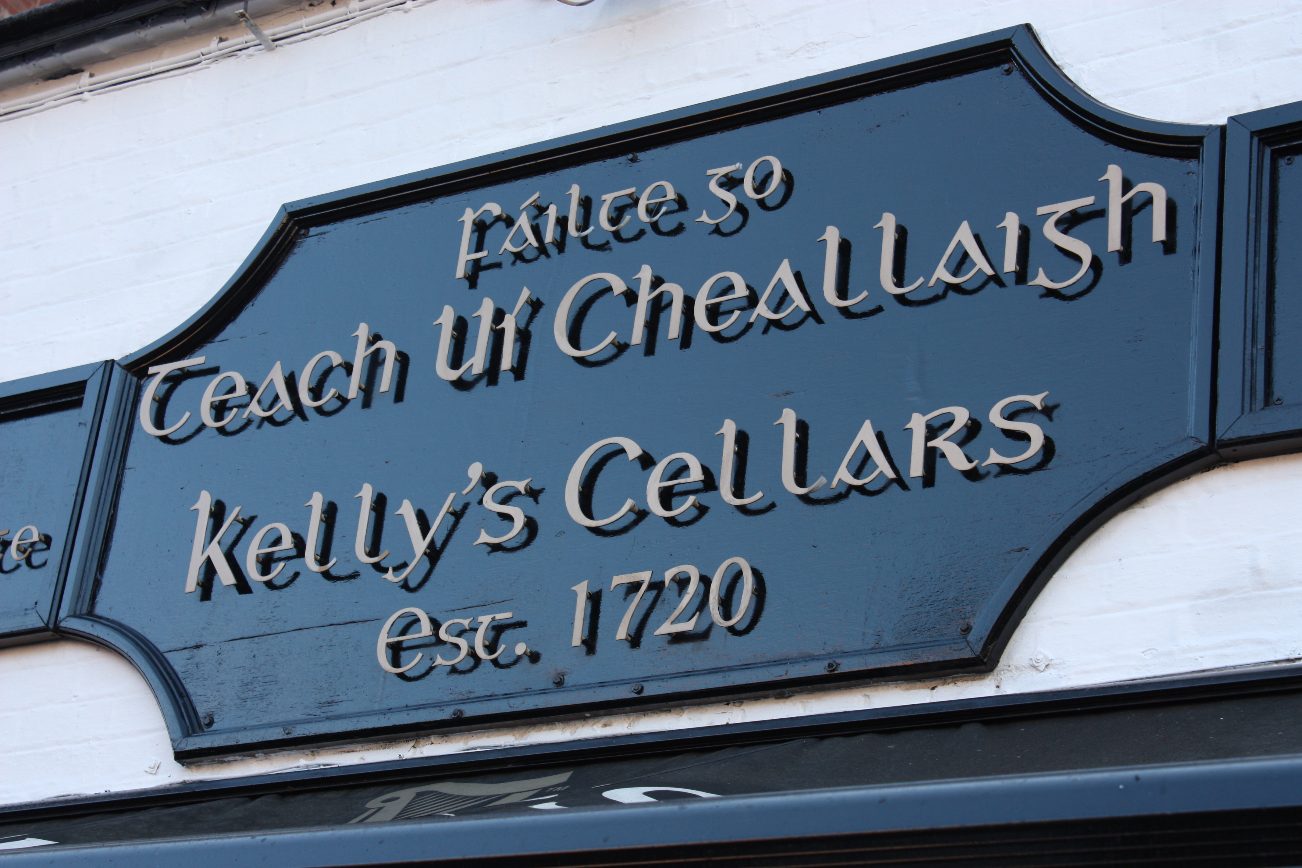 Kelly's Cellars, 30-32 Bank Street, Belfast, Northern Ireland, February 2011